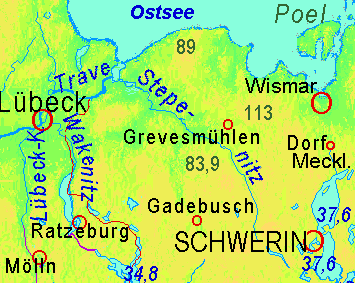 Part of Physical map of Mecklenburg-Vorpommern: Dark green figures = soil above sea level in meters dark blue figures = water level above sea level in meters dark blue arrows = direction of water flow lilac = water bodies crossing divides